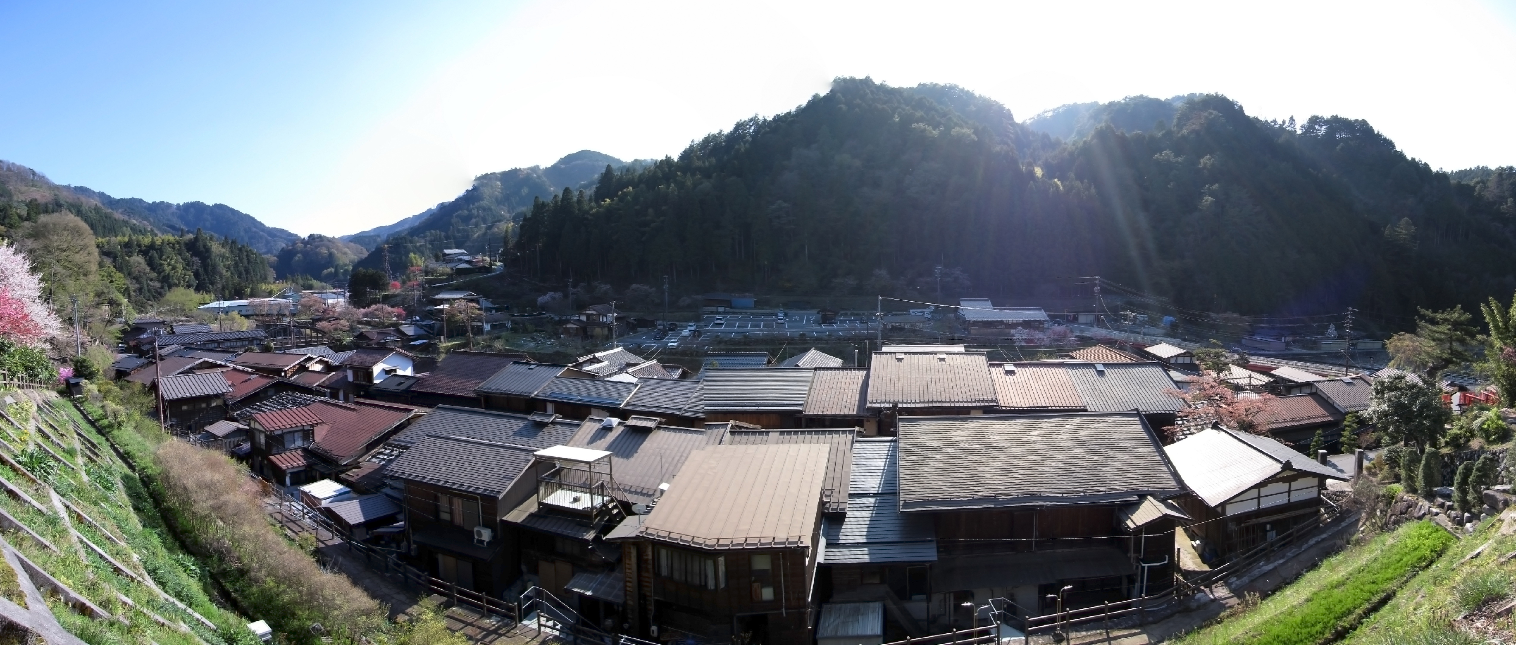 Tsumago-juku (妻籠宿) in Nagano Prefecture, central Japan, in Spring of 2009 with cherry blosoms. Seen from Rurisan Koutokuji Temple.